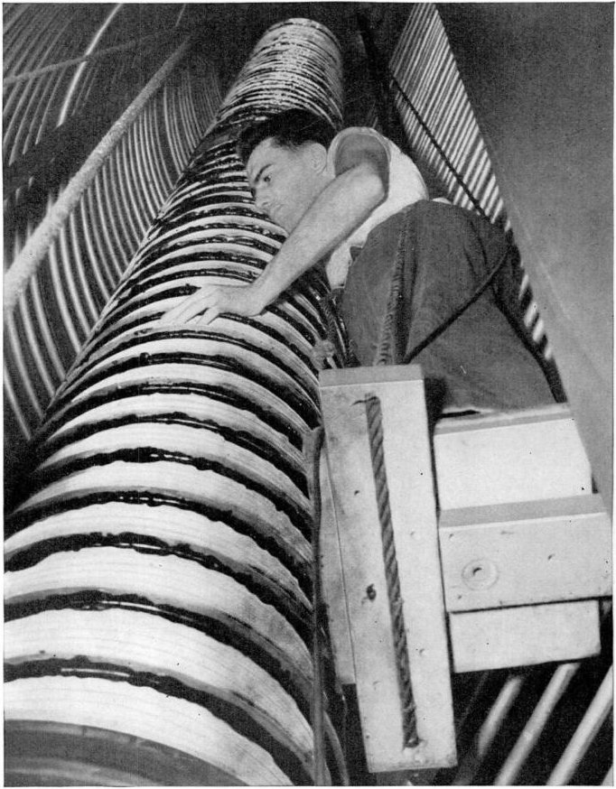 Inside the beamtube of a electrostatic particle accelerator at the University of Pennsylvania in 1940. During operation, subatomic particles travel through the evacuated pipe at center, accelerated by a million volt electrostatic potential. The metal rings along the tube are called grading rings and serve to even out the potential along the tube, to prevent arcing.